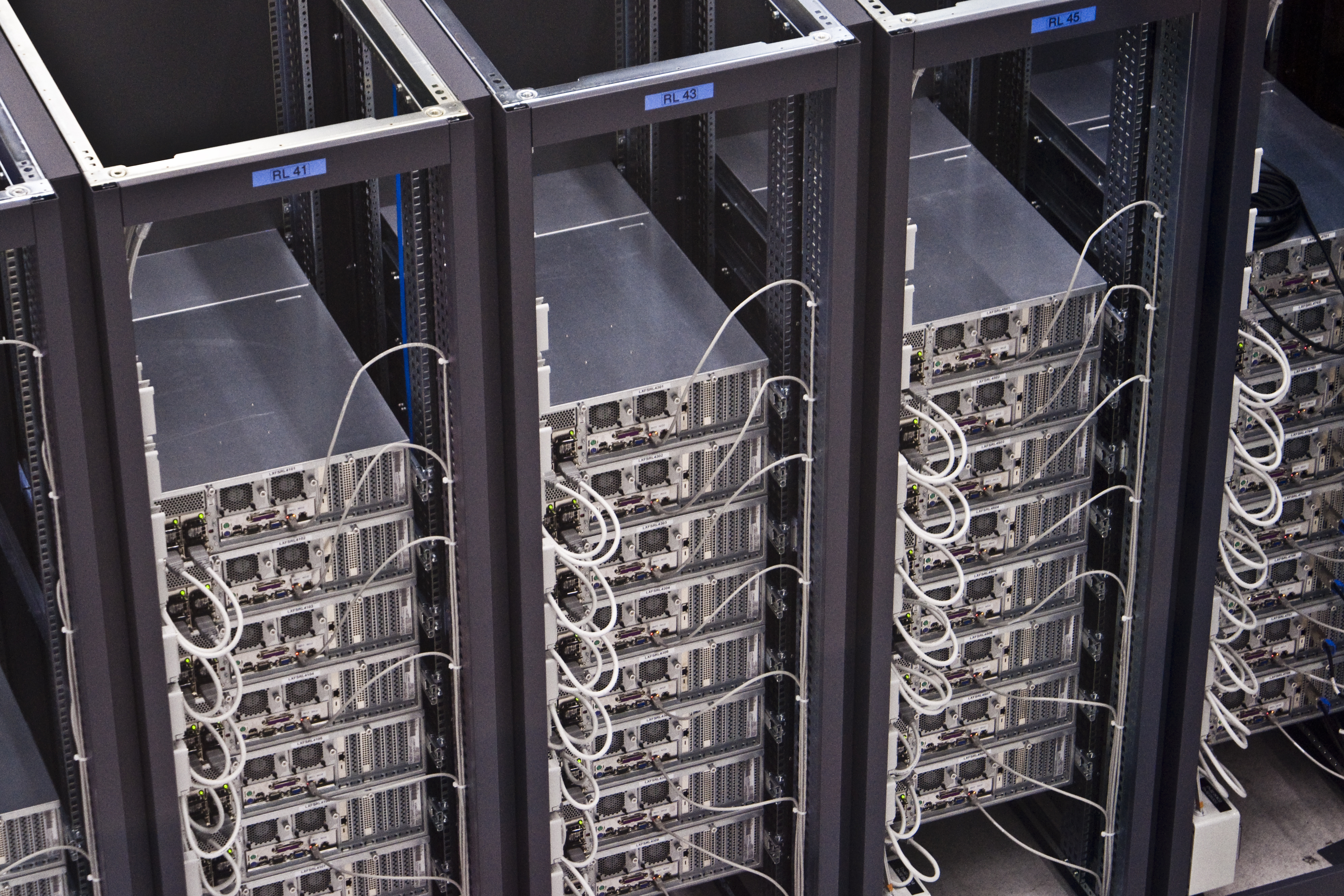 Server room in CERN (Switzerland)